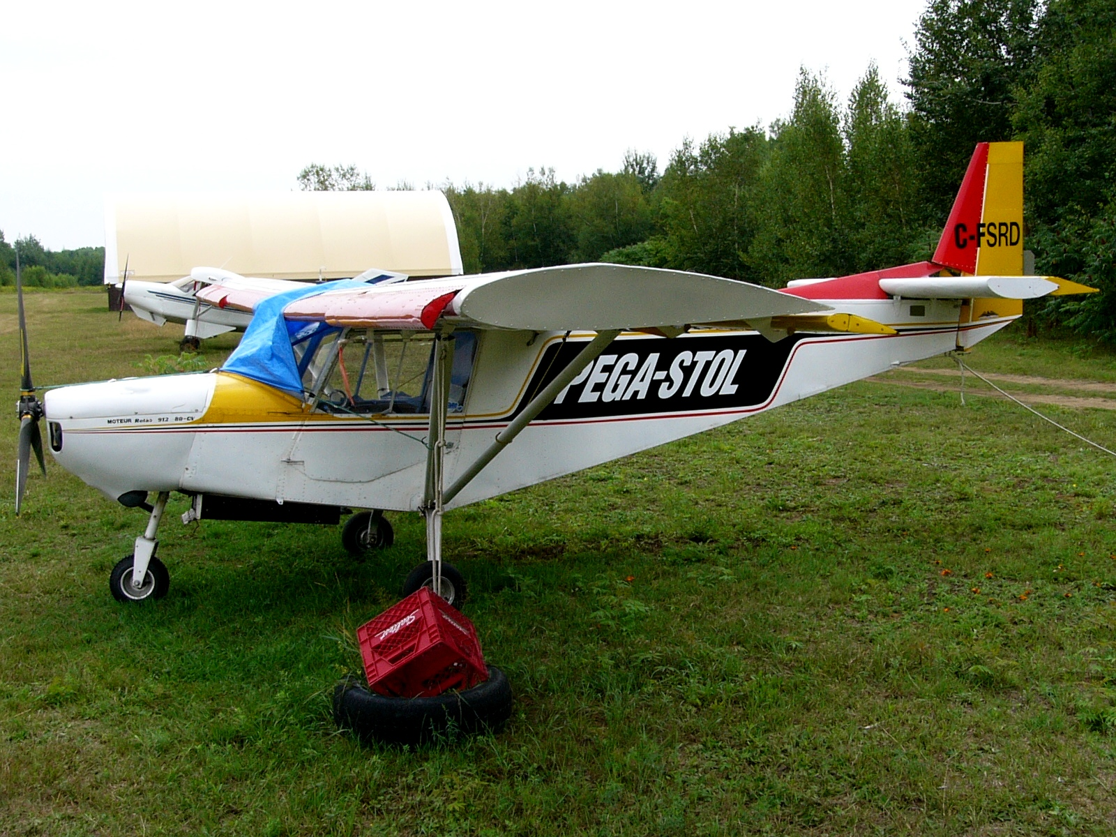 a Zenair STOL CH 701, with the after-market slatted Tapanee Pega-STOL wing installed. The wing was designed by Serg Dufour of Mont-Saint-Michel, Quebec, as an improvement on the 701's original fixed slot wing. This eventually lead to designing a whole new fuselage and tail to go with the wing, giving birth to the Tapanee Pegazair-100. Photo taken at the Hawkesbury, Ontario, Canada, Fly-in.